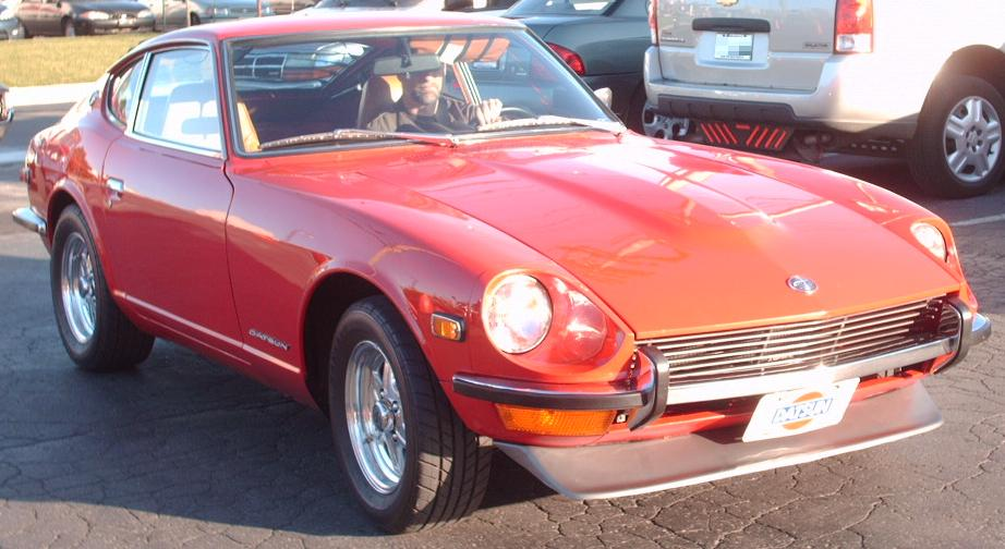 1970-1973 Datsun 240Z photographed in Montreal, Quebec, Canada at Gibeau Orange Julep.